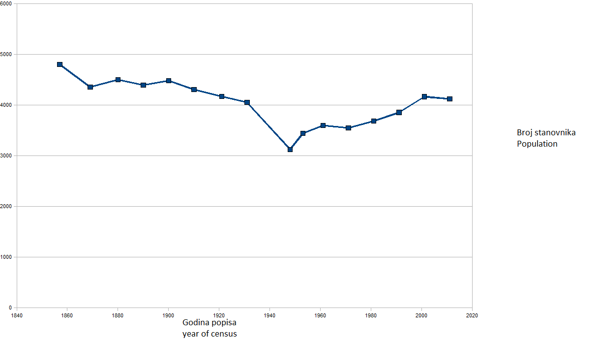 Demographic history of Orebić municipality in period 1857-2011